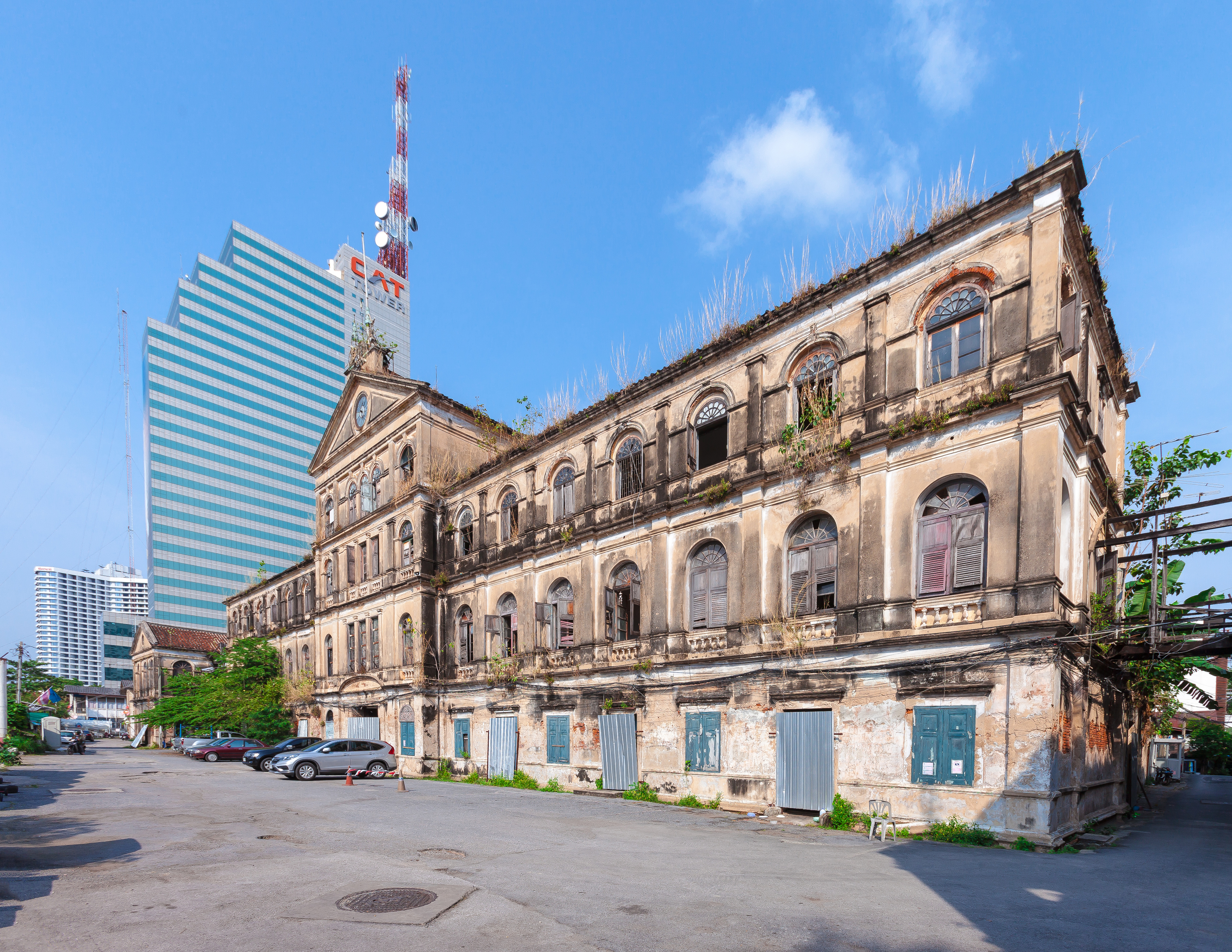 The Old Customs House (also: BangRak Fire Station), Bangrak District, Bangkok.